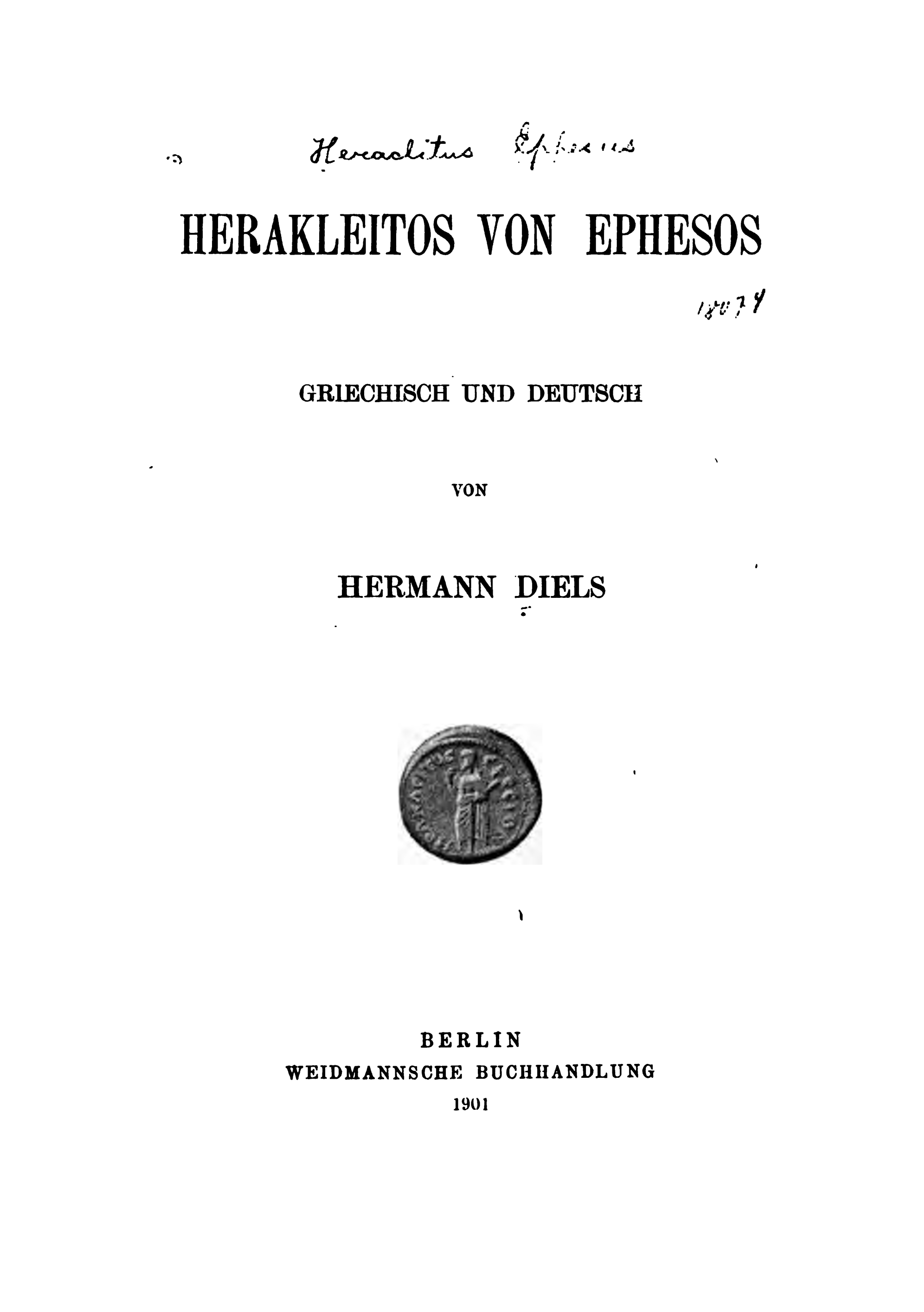 This is a scan of the historical document